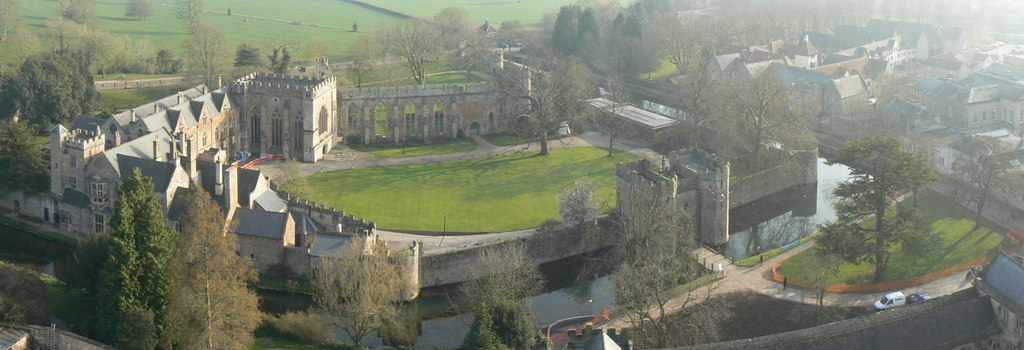 Panoramic view of the Bishop's Palace, Wells